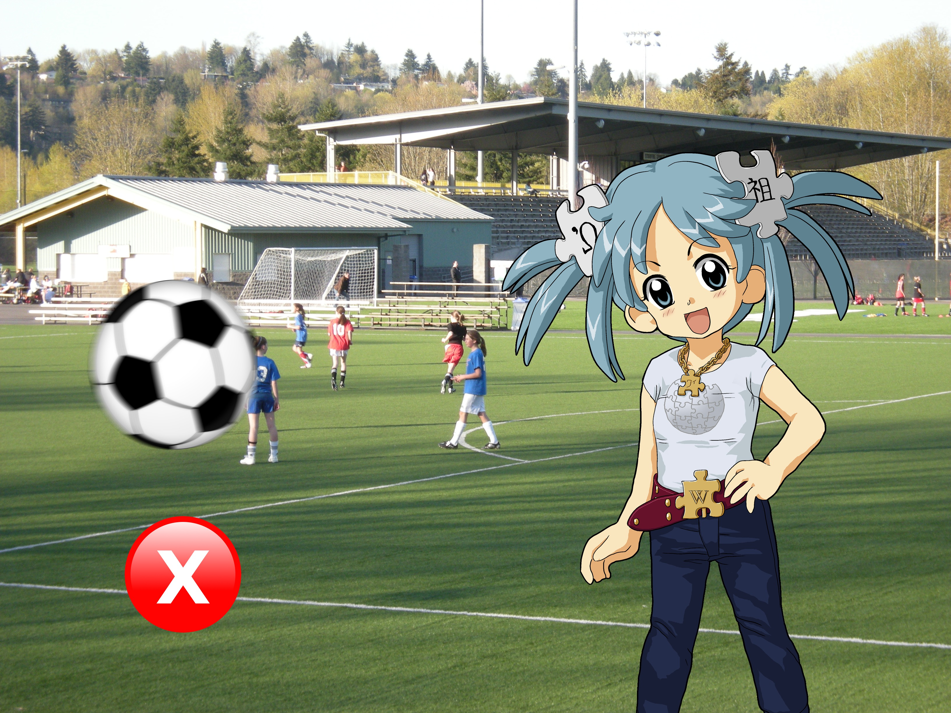 Mockup of a video game screen demonstrating a Quick Time Event - here where Wikipe-tan, the player-character, would be hit by the incoming soccer ball unless the player presses the marked button (X) in time on the game controller.